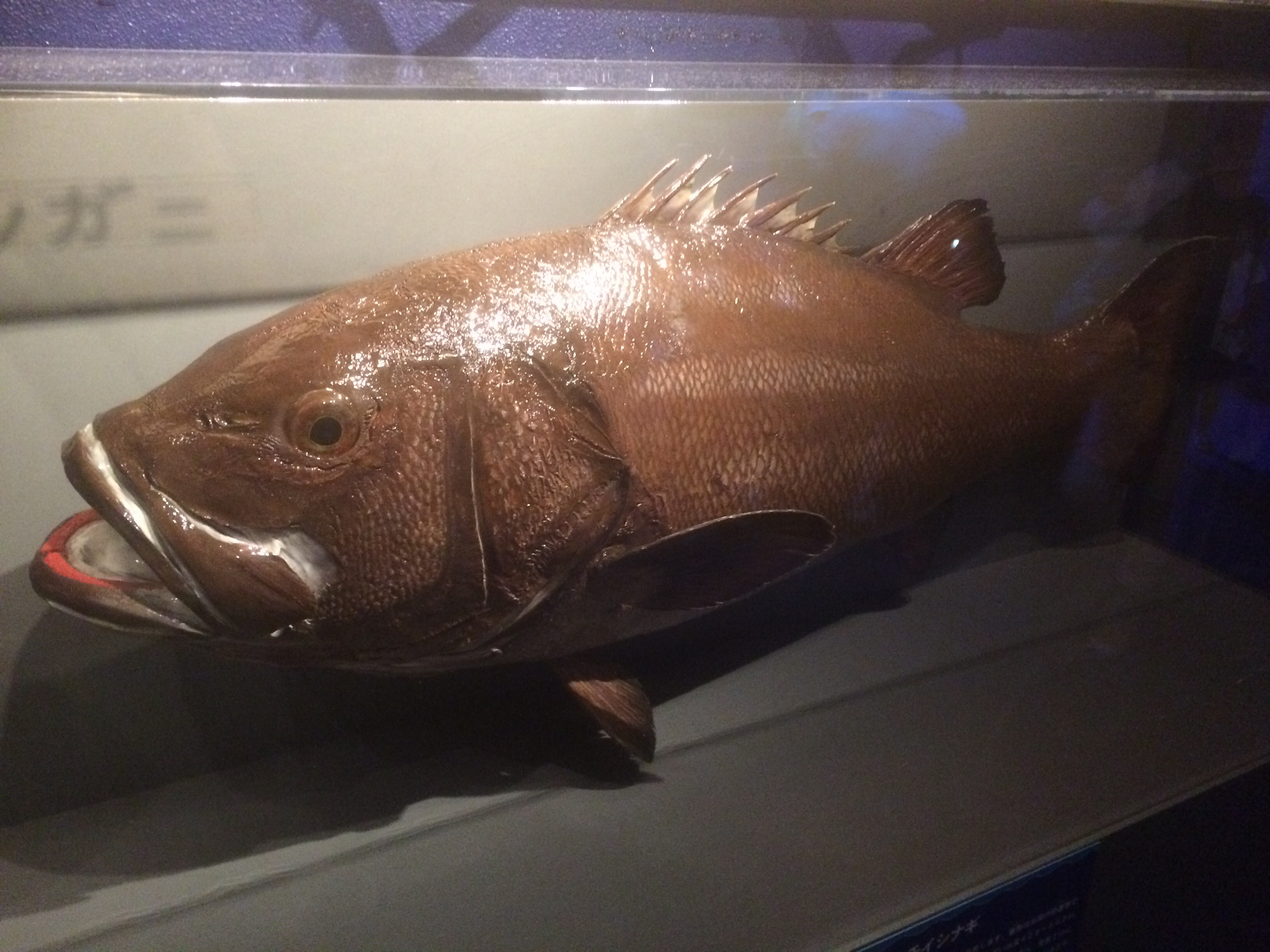 Stereolepis doederleini (stuffed) in Shinagawa Aquarium, Japan